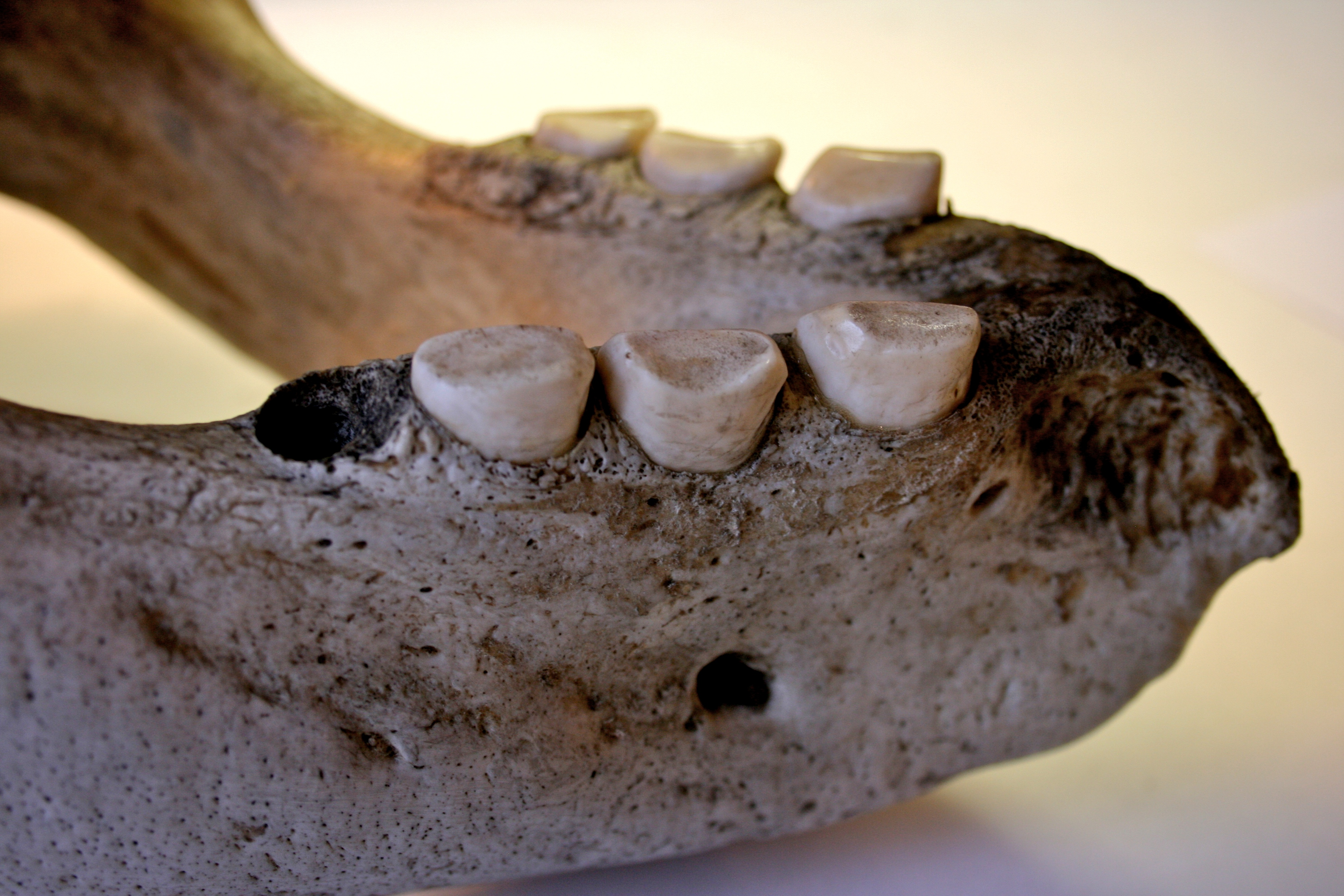 Teeth in the skull of a large Walrus, probably collected in the 19th century.